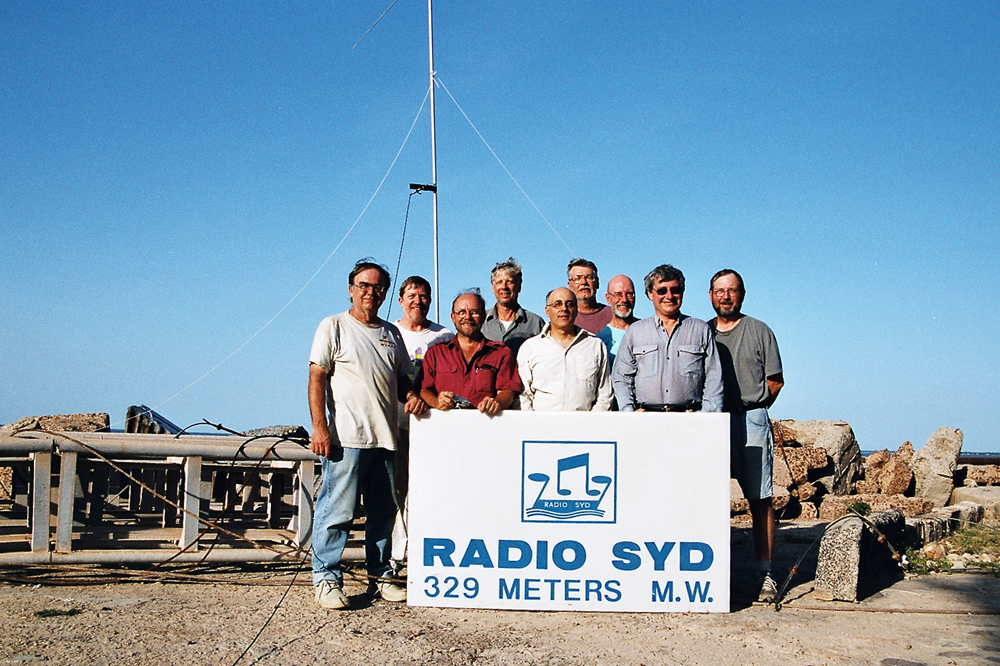 DX-pedition to The Gambia in October 2003 by a group of operators from the USA and Europe. The call sign used was C5Z and the location was a commercial medium-wave radio station that is no longer in use. Photograph taken by Henryk Kotowski and released under the GFDL licence